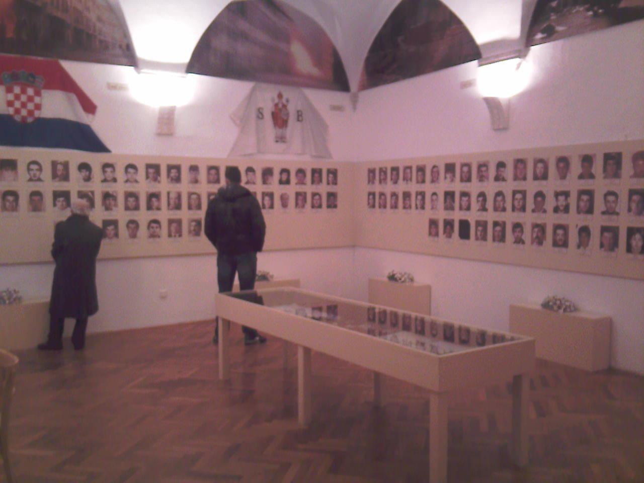 The memorial room dedicated to all fallen soldiers from Dubrovnik